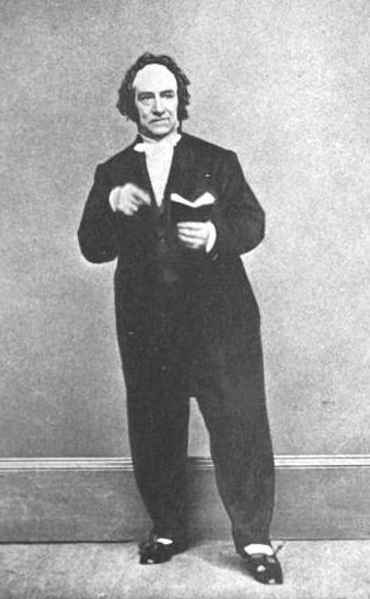 Image of George Holland, from The Wallet of Time: Containing Personal, Biographical, and Critical Reminiscence of the American Theatre, by William Winter. New York: Moffat, Yard and Company, 1913.